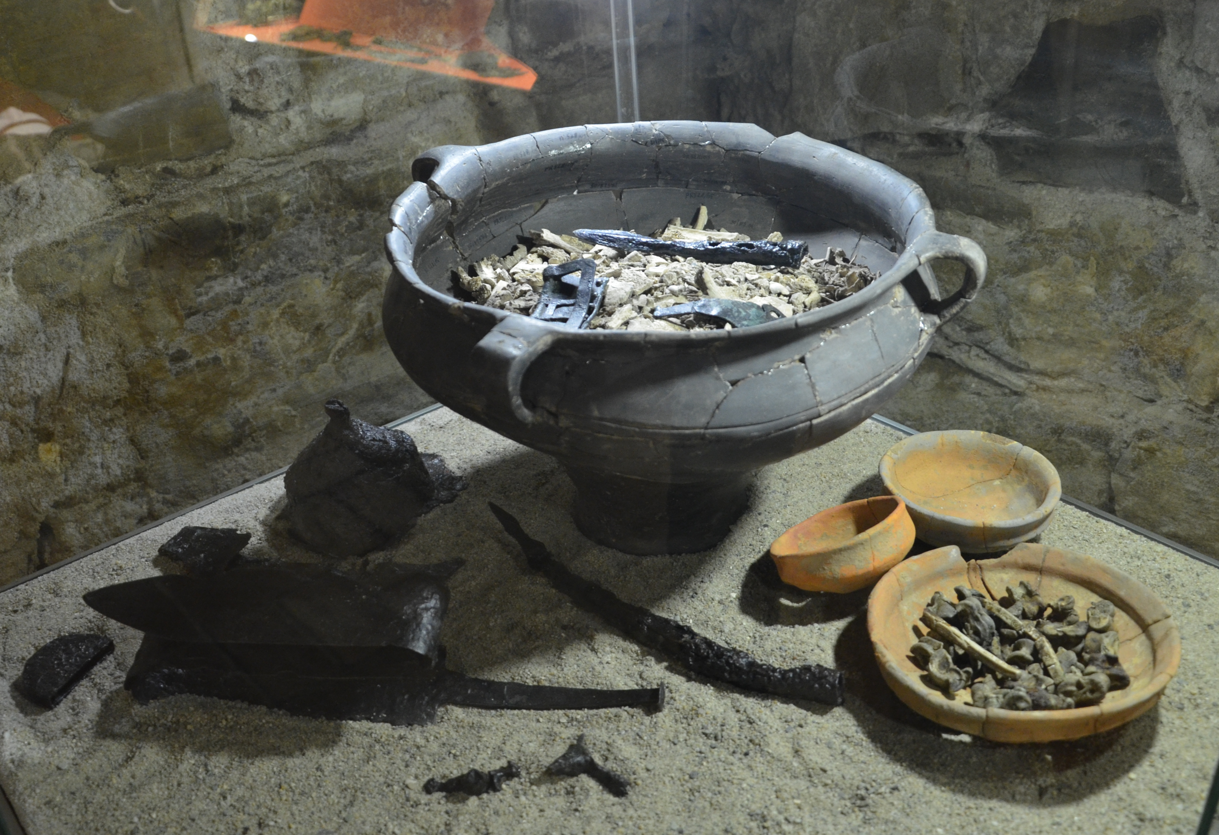 Funde der Przeworsker-Kultur, Prusiek, Sanok